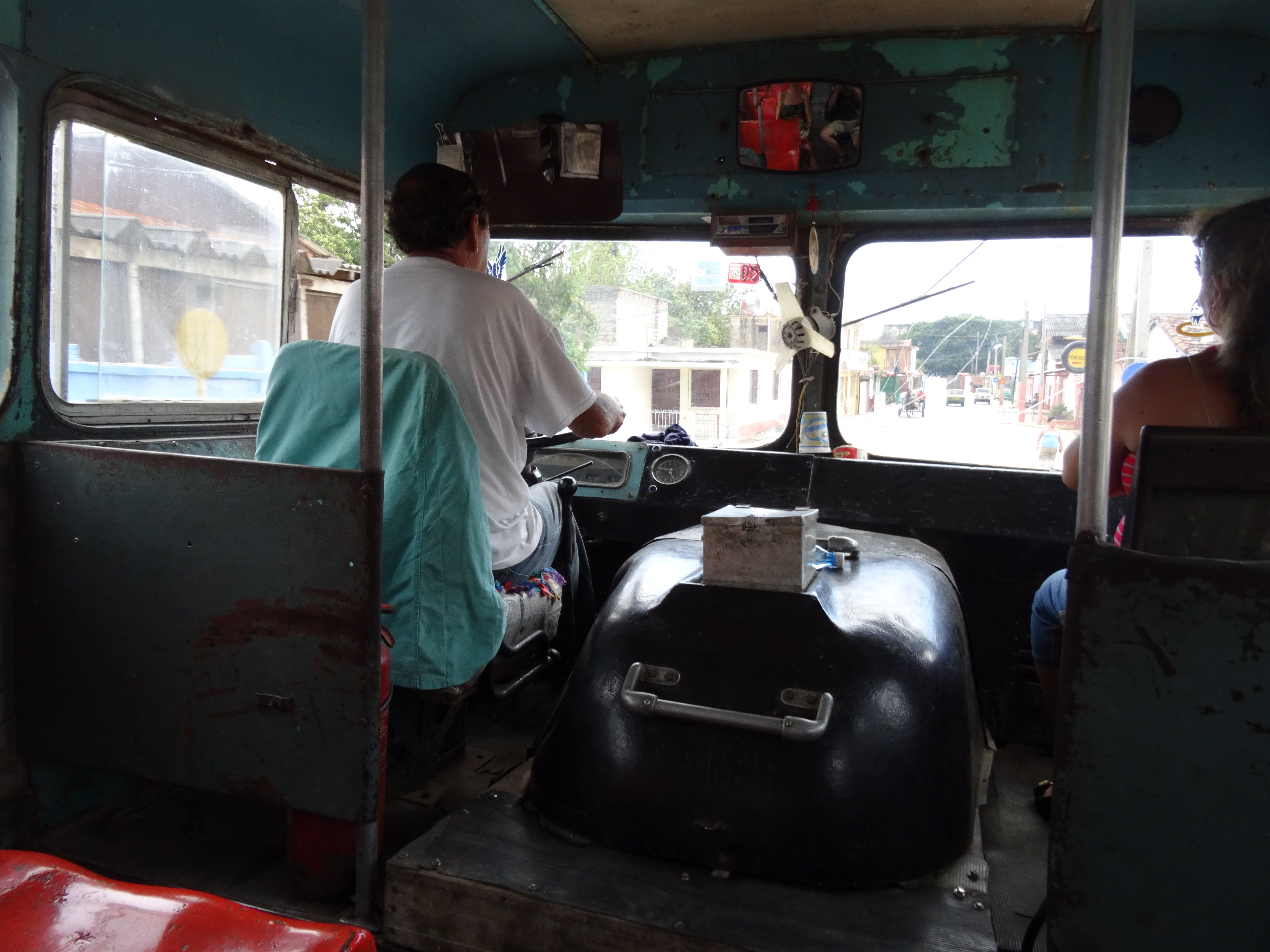 Girón V school bus inside front, Cuba